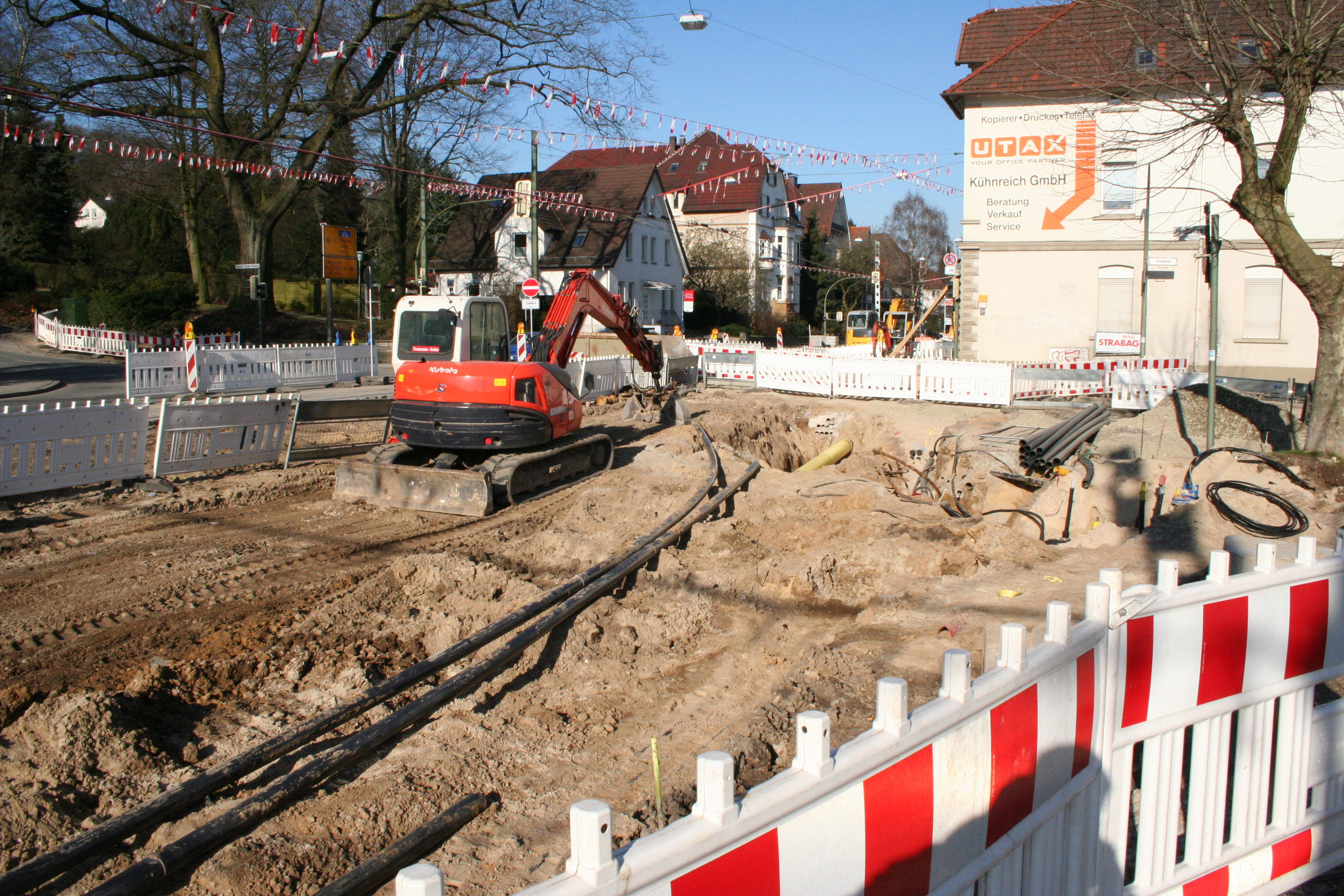 Road works at the Detmolder Straße (near Prießallee) in Bielefeld (Germany, NRW).